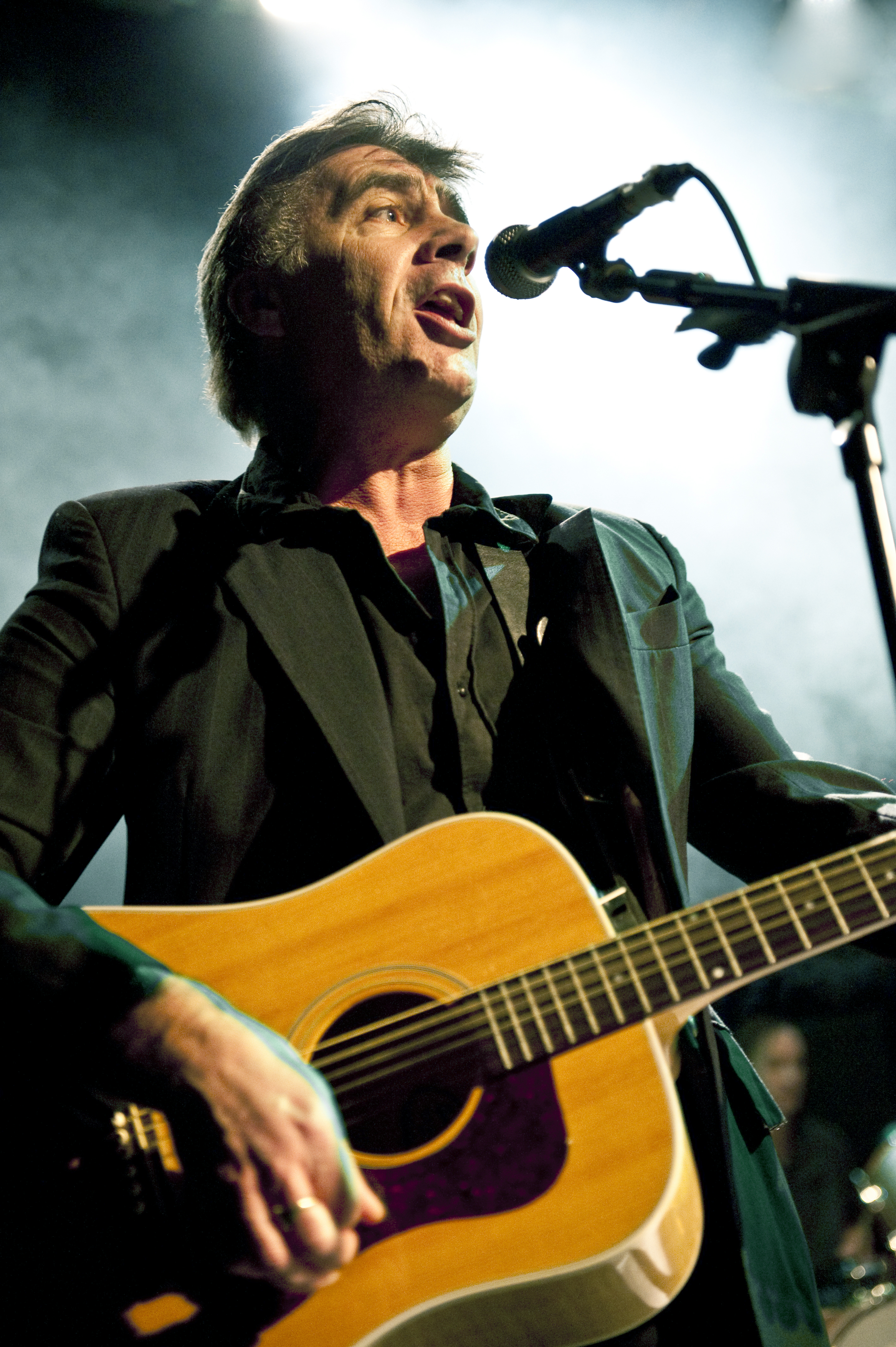 Glen Matlock (Sex Pistols, Rich Kids). On stage at the final Rich Kids concert, London, January 2010